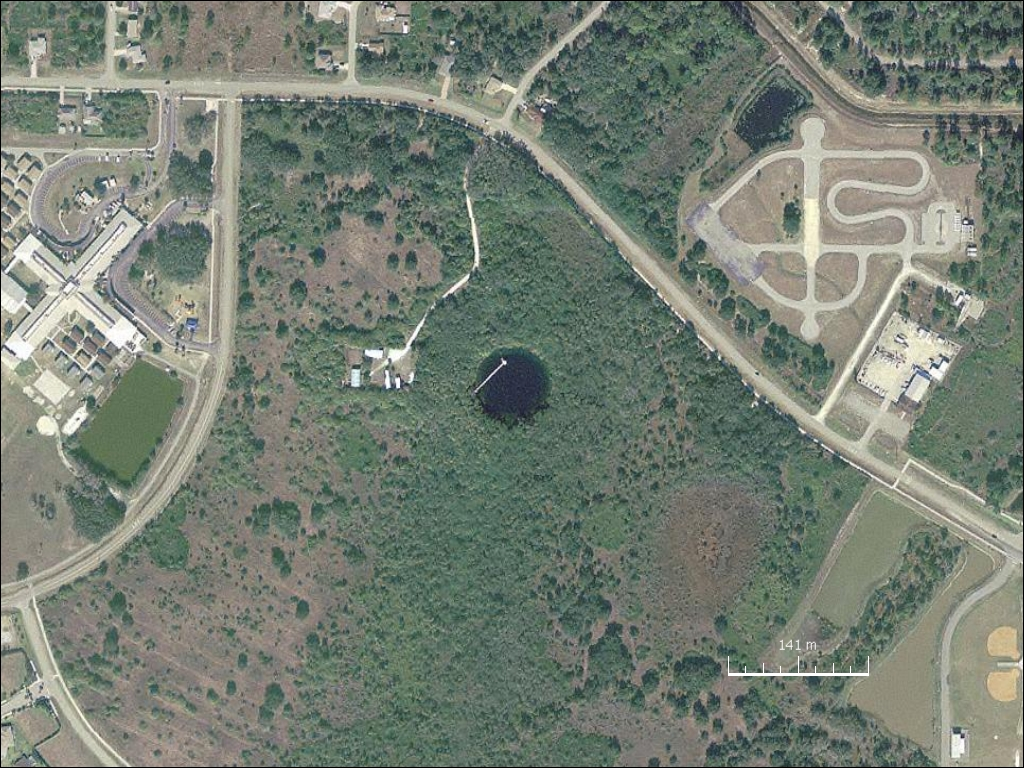 Little Salt Spring, North Port, Sarasota County, Florida, USA